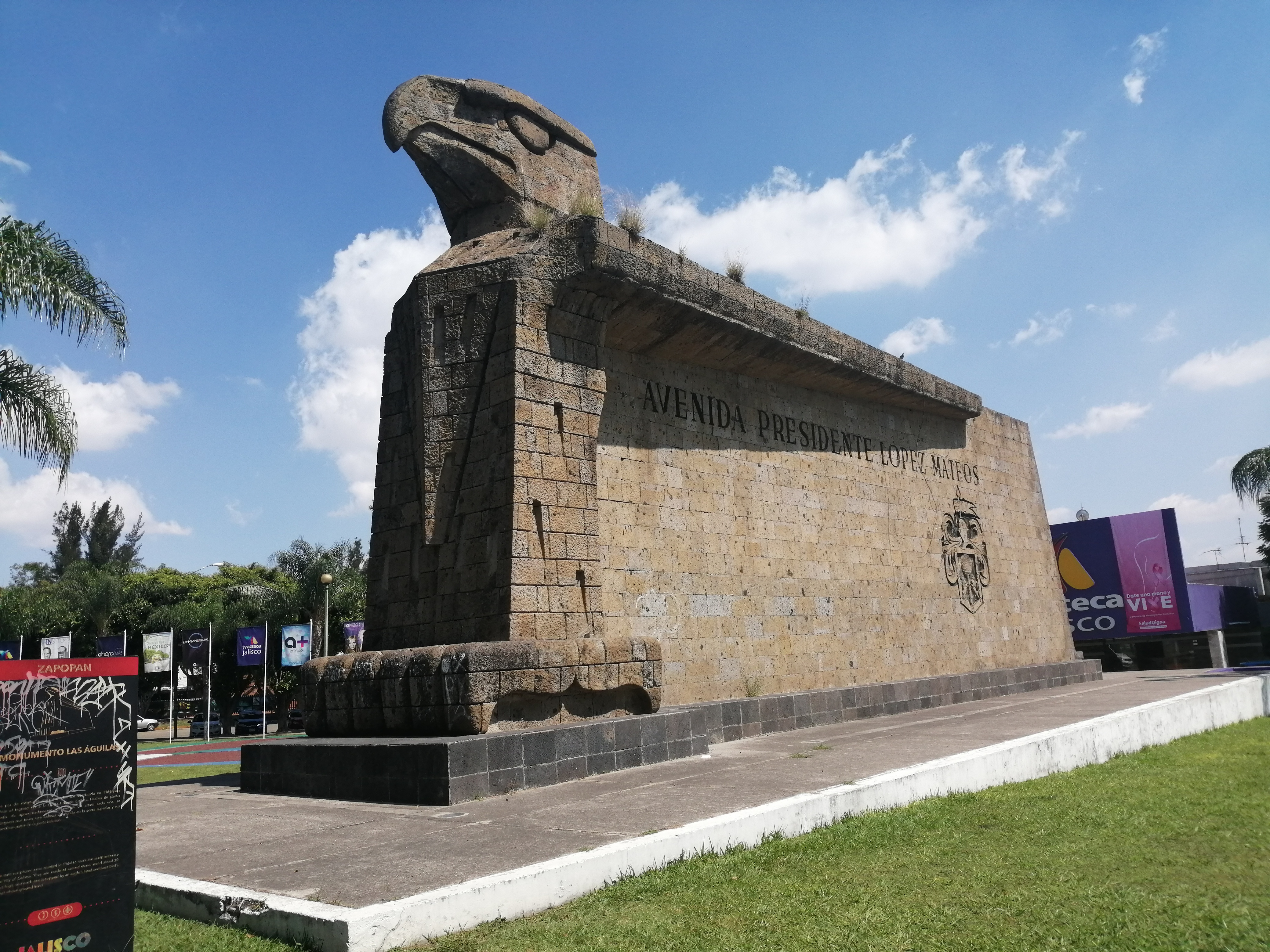 Eagles monument 2